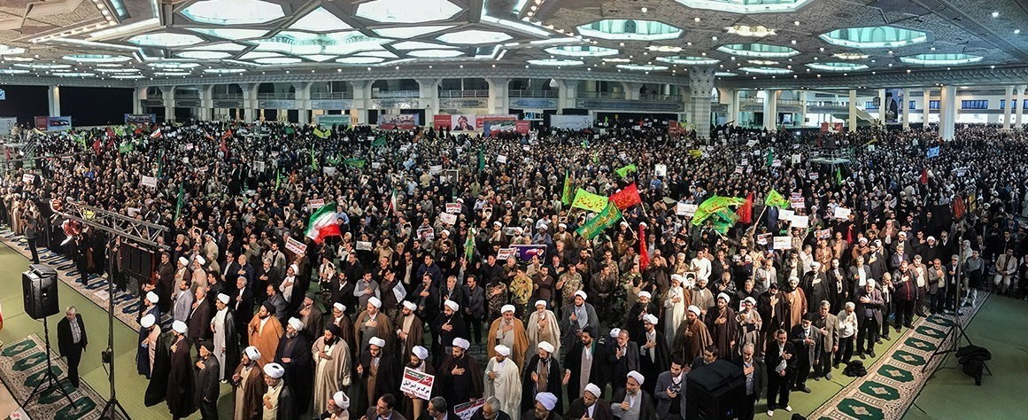 Commemoration of 30th of December 2009 in Mosalla of Tehran